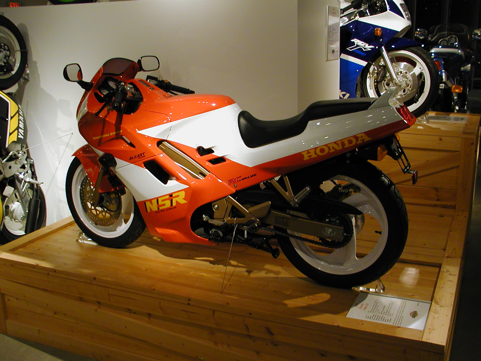 Barber Motorcycle Museum - Oct 22 2006 (103) 1990 Honda NSR125 / More Description is here